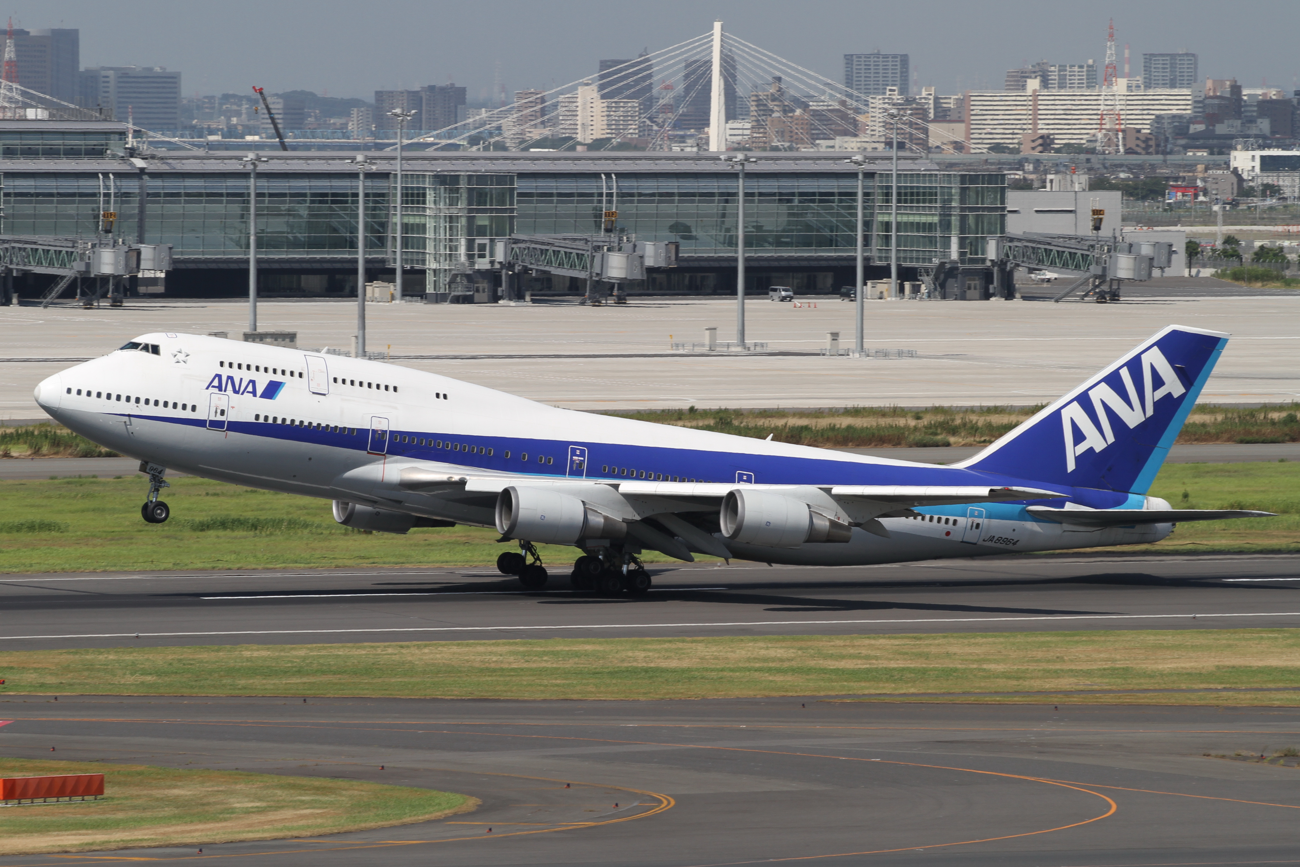 Tokyo International Airport, Boeing 747-481D, c/n:27163, All Nippon Airways